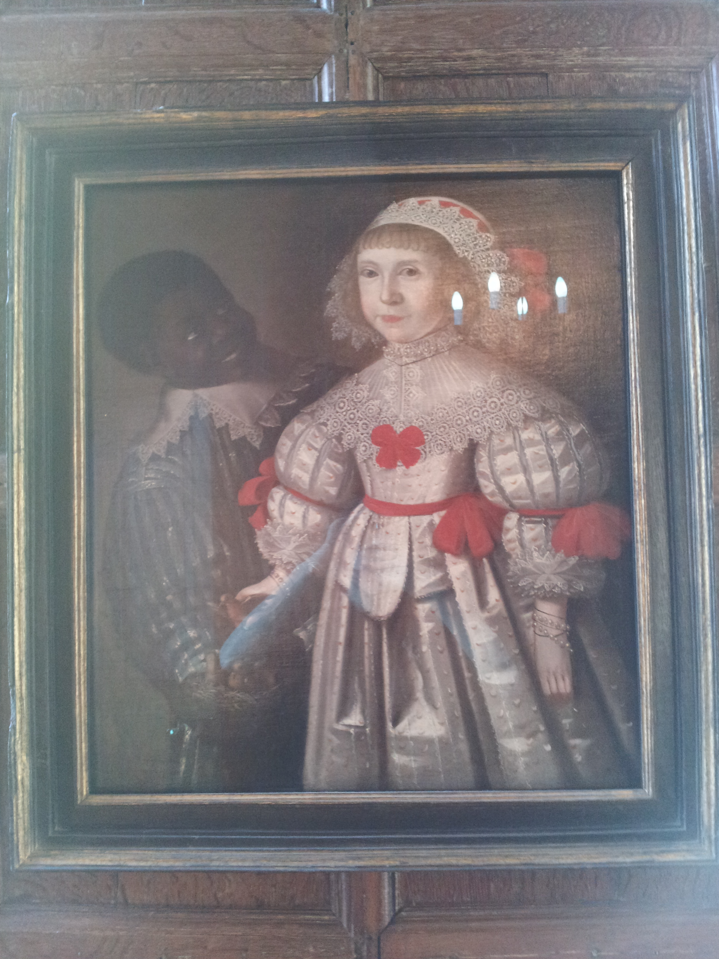 Tudro and Georgian furniture at the Red Lodge Museum in Bristol